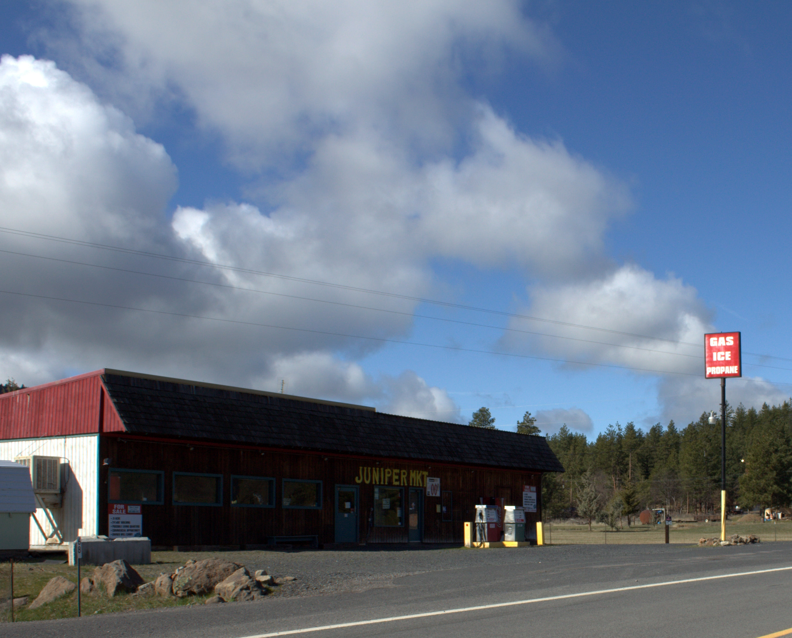 Juniper Market, closed.